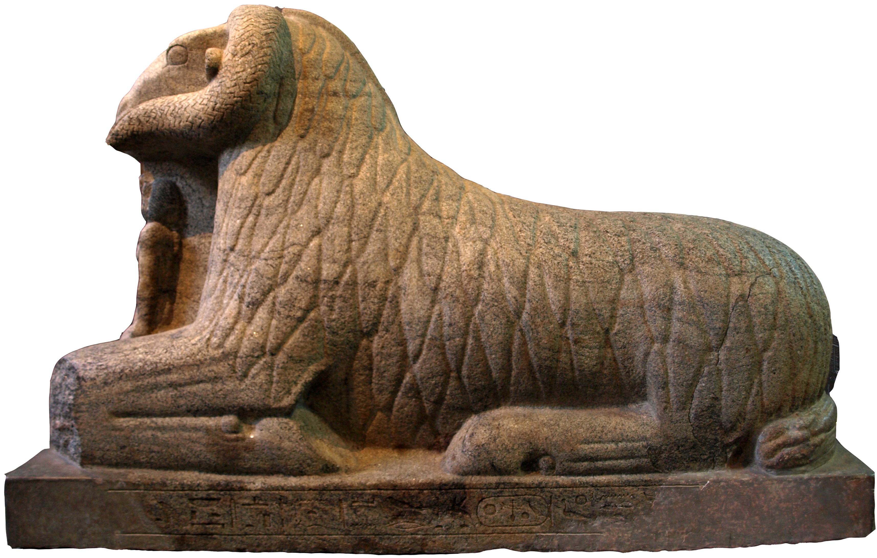 Statue of ram of Amun with the pharoah Taharqa, made of granite, circa 690-664 BC. EA 1779.